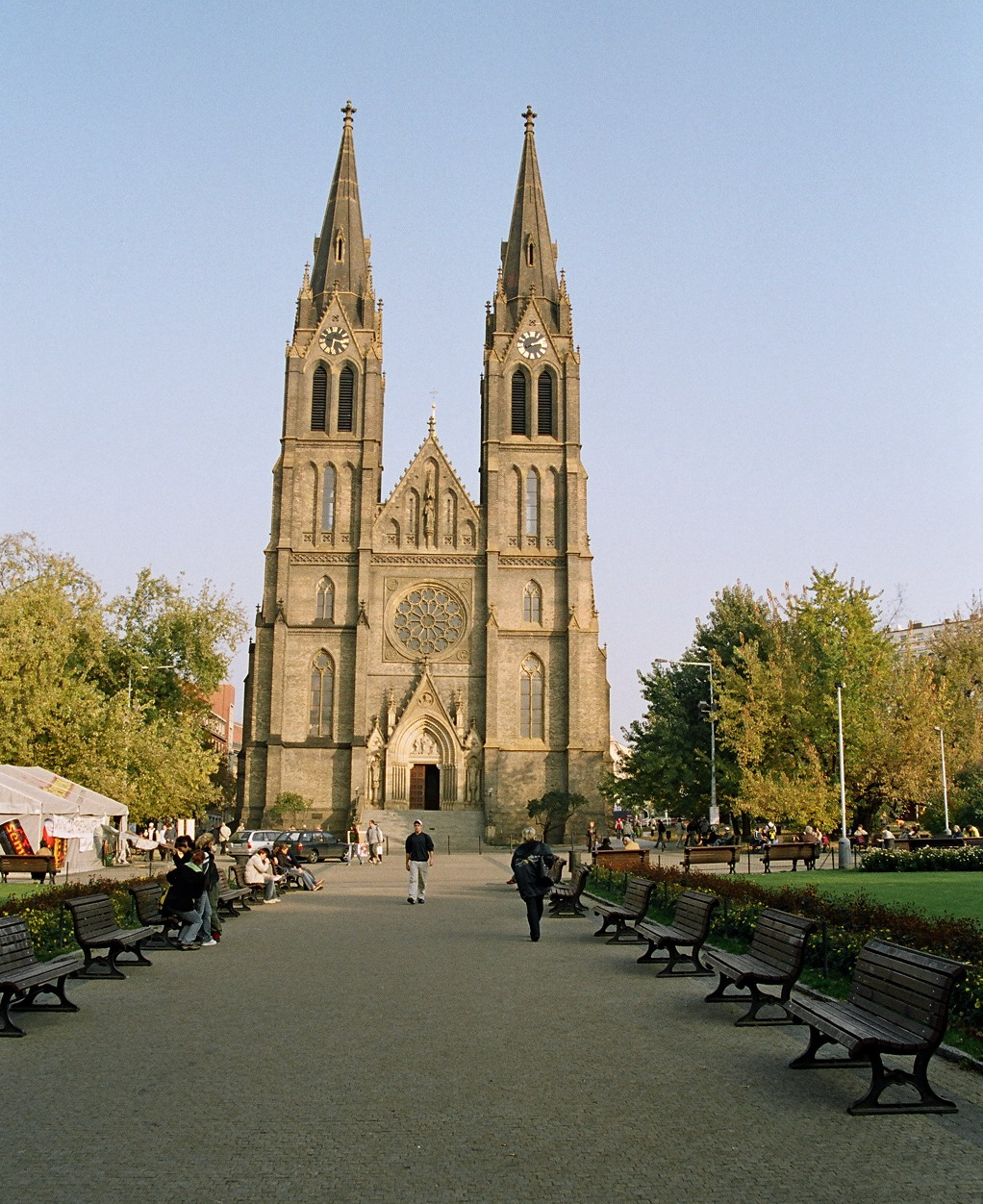 Namesti Miru and St. Ludmilla Church in Prague, Czech Republic